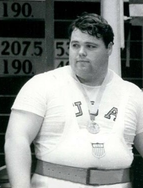 Weightlifting. Tungvikts OS. Reding, Leonid Zjabotinskij - Vintage Photograph